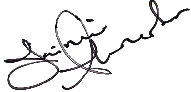 Signature of actress Jaimie Alexander